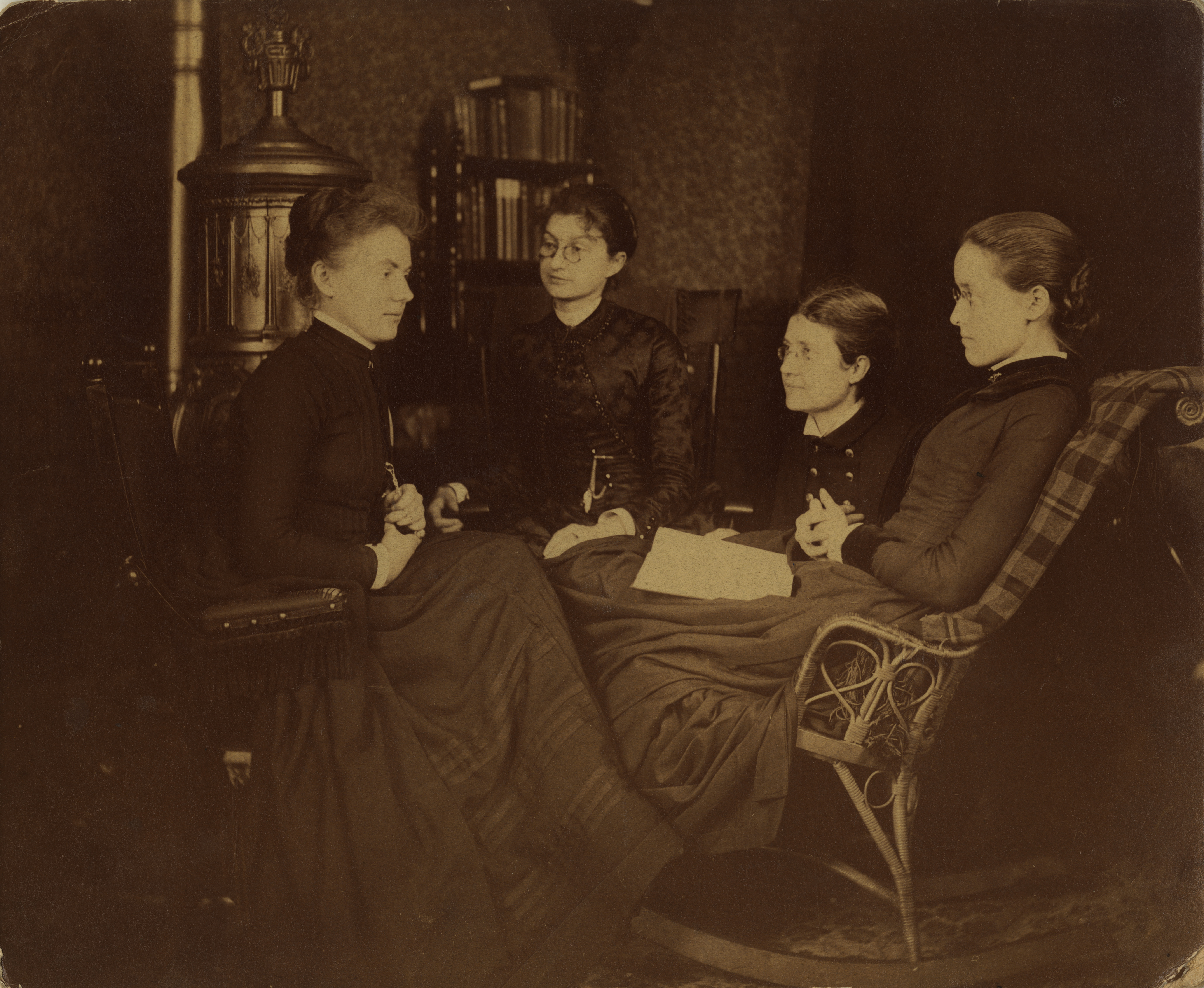 L-R: Dr. Van Hoosen ('88m), Dr. Josephine Dorr Blaake ('87m), Dr. Elizabeth Farrand ('87m), Dr. Esther Clara Herrick Brooks ('86m, '82 Smith)